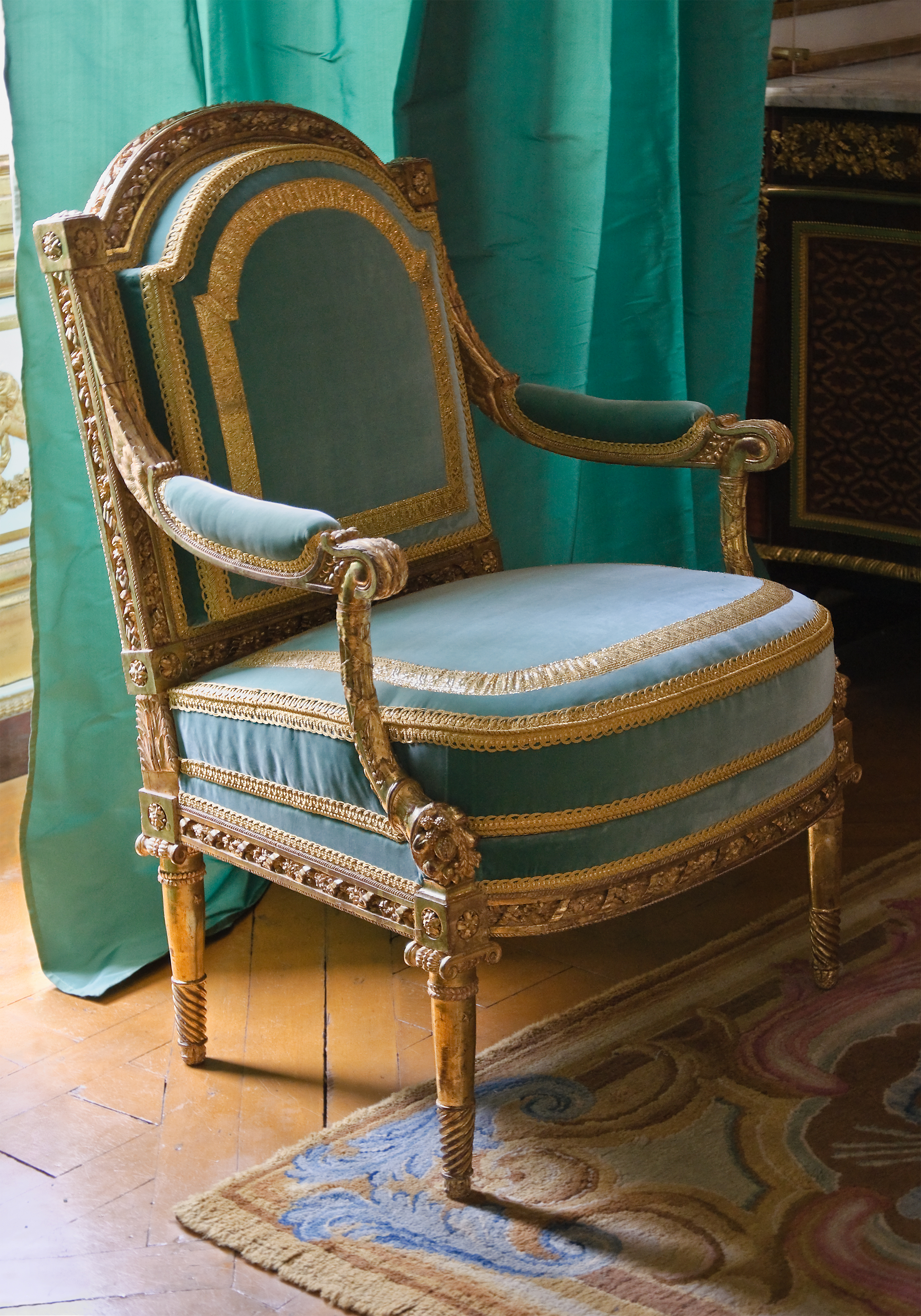 An armchair by